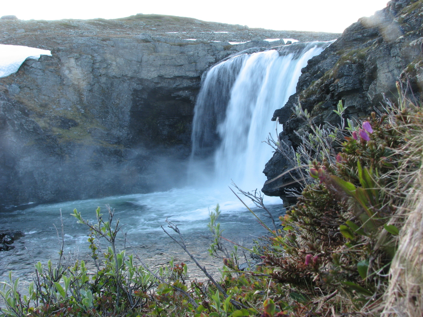 Pihtsusköngäs waterfall in Enontekiö, Finland. The photo is taken in the evening of the 7th of July, 2008.